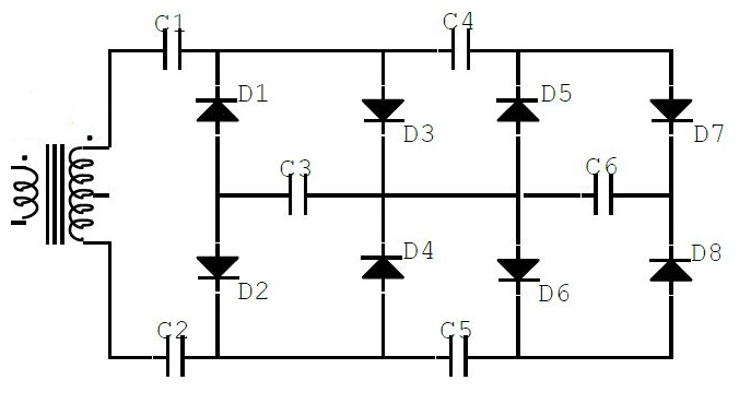 Помножувач Халперна